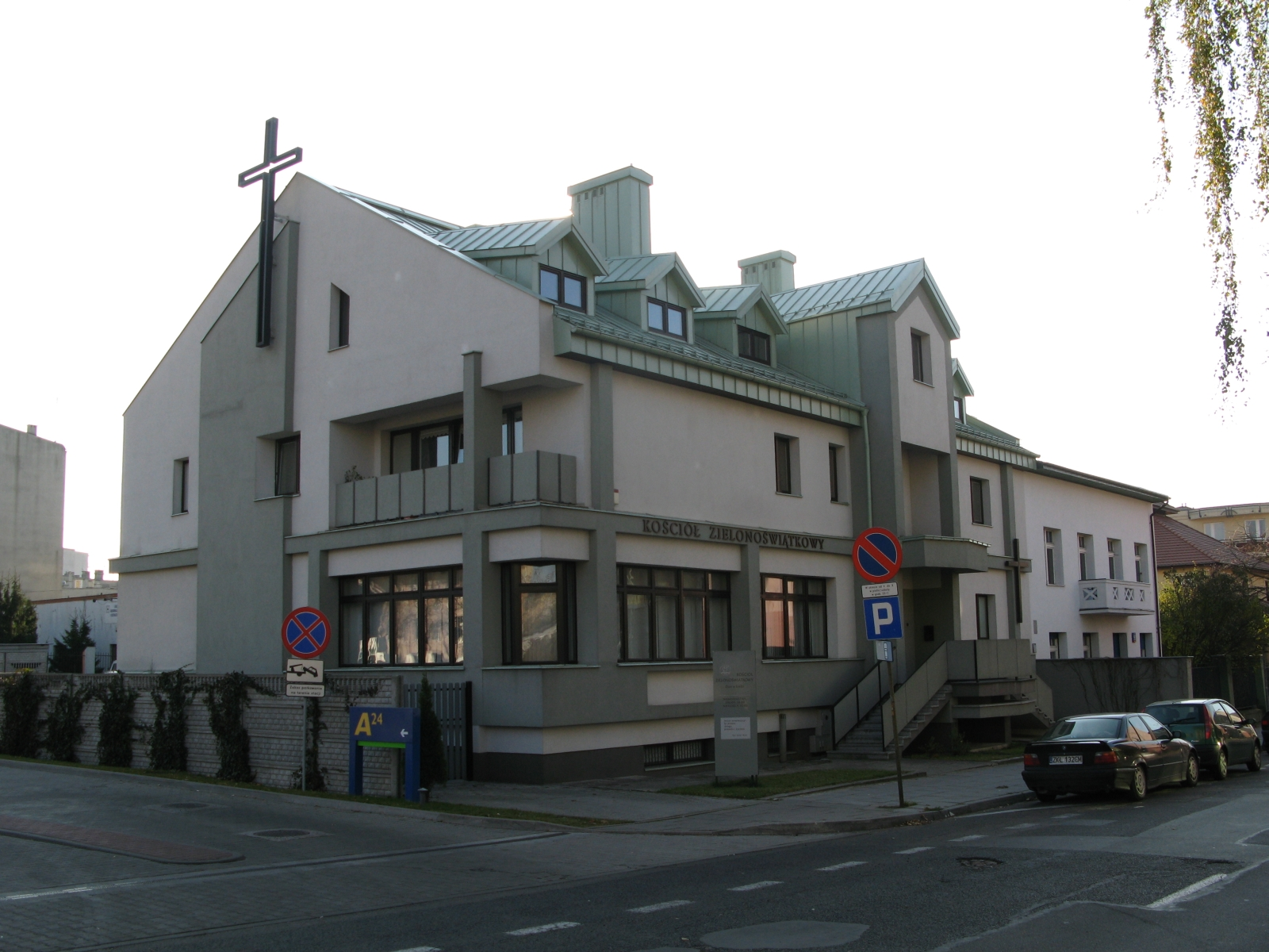 Pentecostalian church in Łódź, Jaracza Street